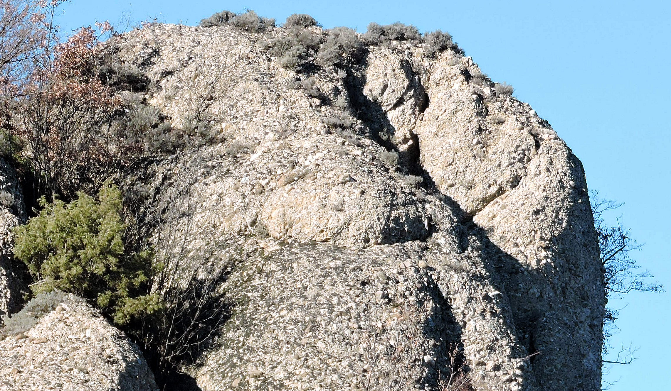 Monte Barilaro (Ligurian Apennine): conglomerate cliffs